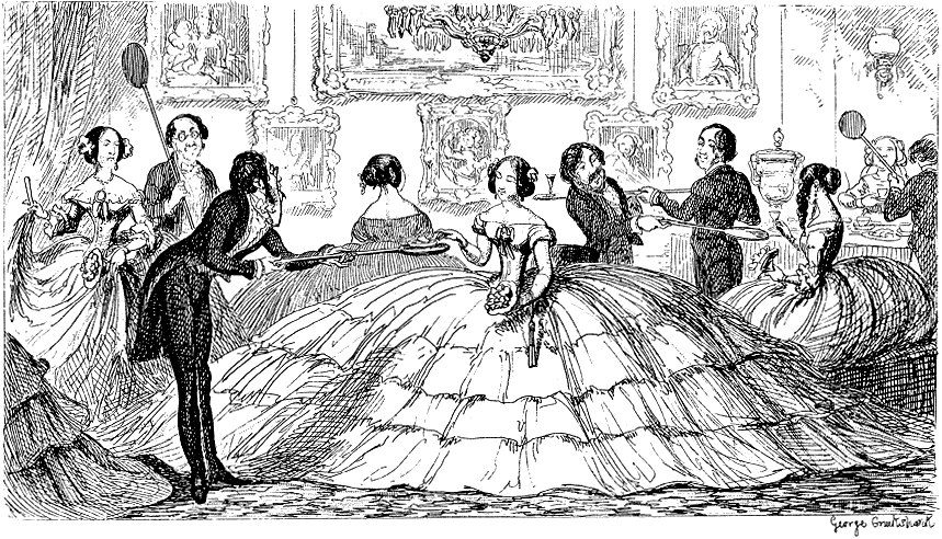 "A Splendid Spread", satire on an early inflatable (air tube) version of the crinoline by George Cruikshank, from The Comic Almanack, 1850. (Crinolines did not actually come into wide use until a few years later.) Note that the gentlemen have to use long-handled trays ("baker's peels") if the ladies are to be able to eat or drink.